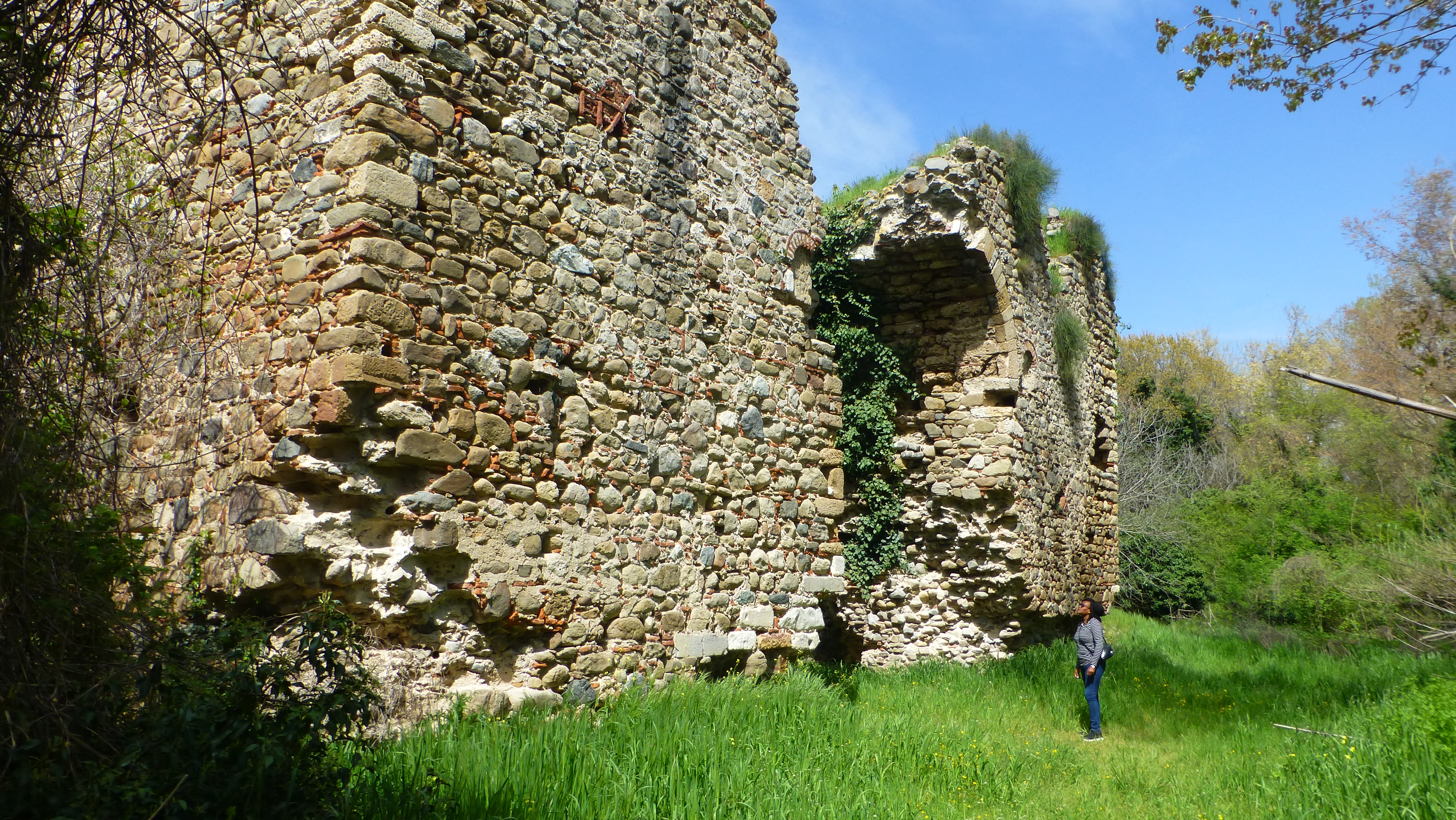 Anastasiopolis, Xanthi, Komotini, Greece